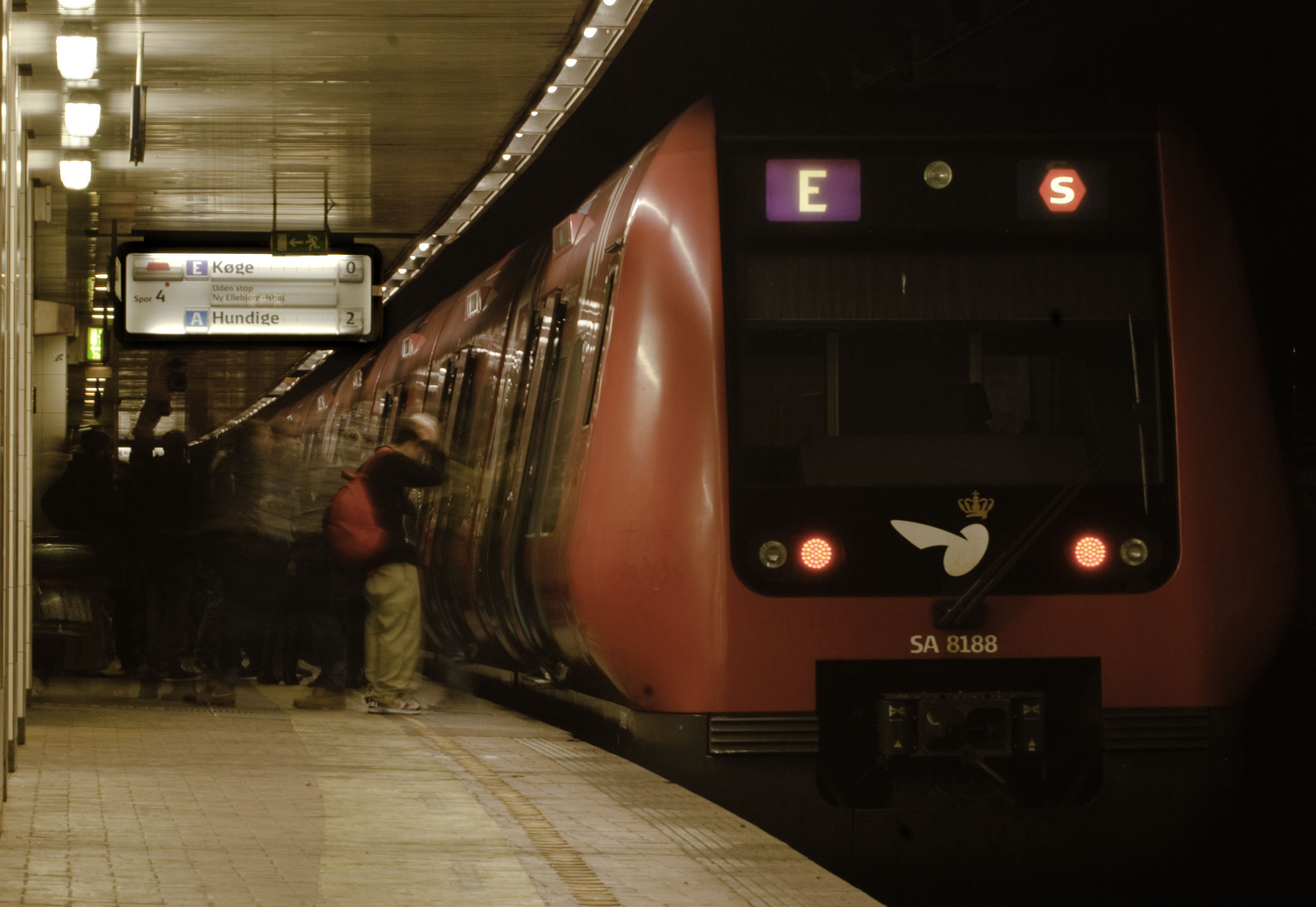 Copenhagen S-train line E at Nørreport Station.